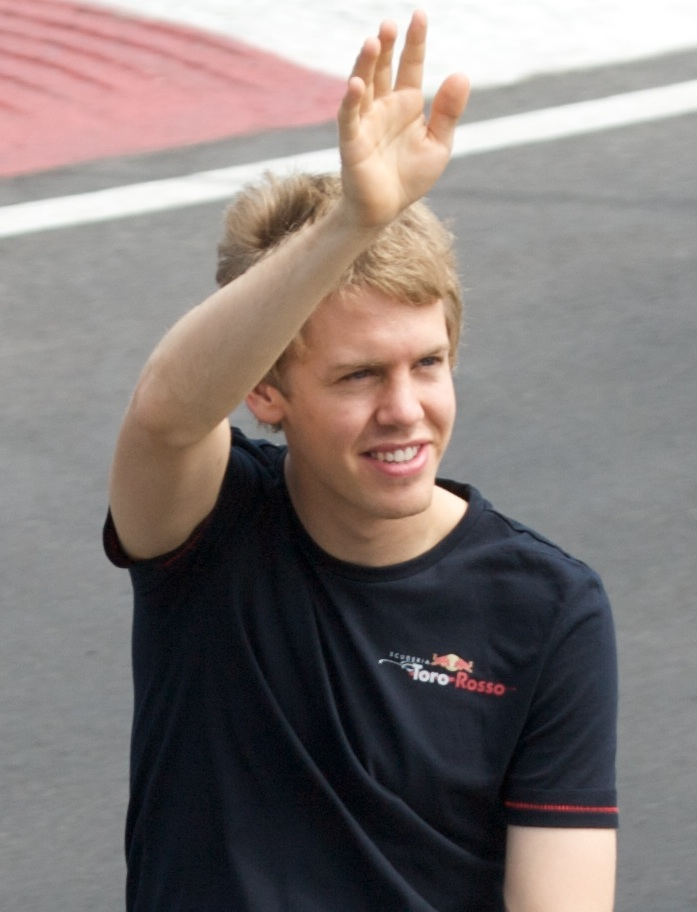 (Cropped version from) Vettel before action at Canada 2008